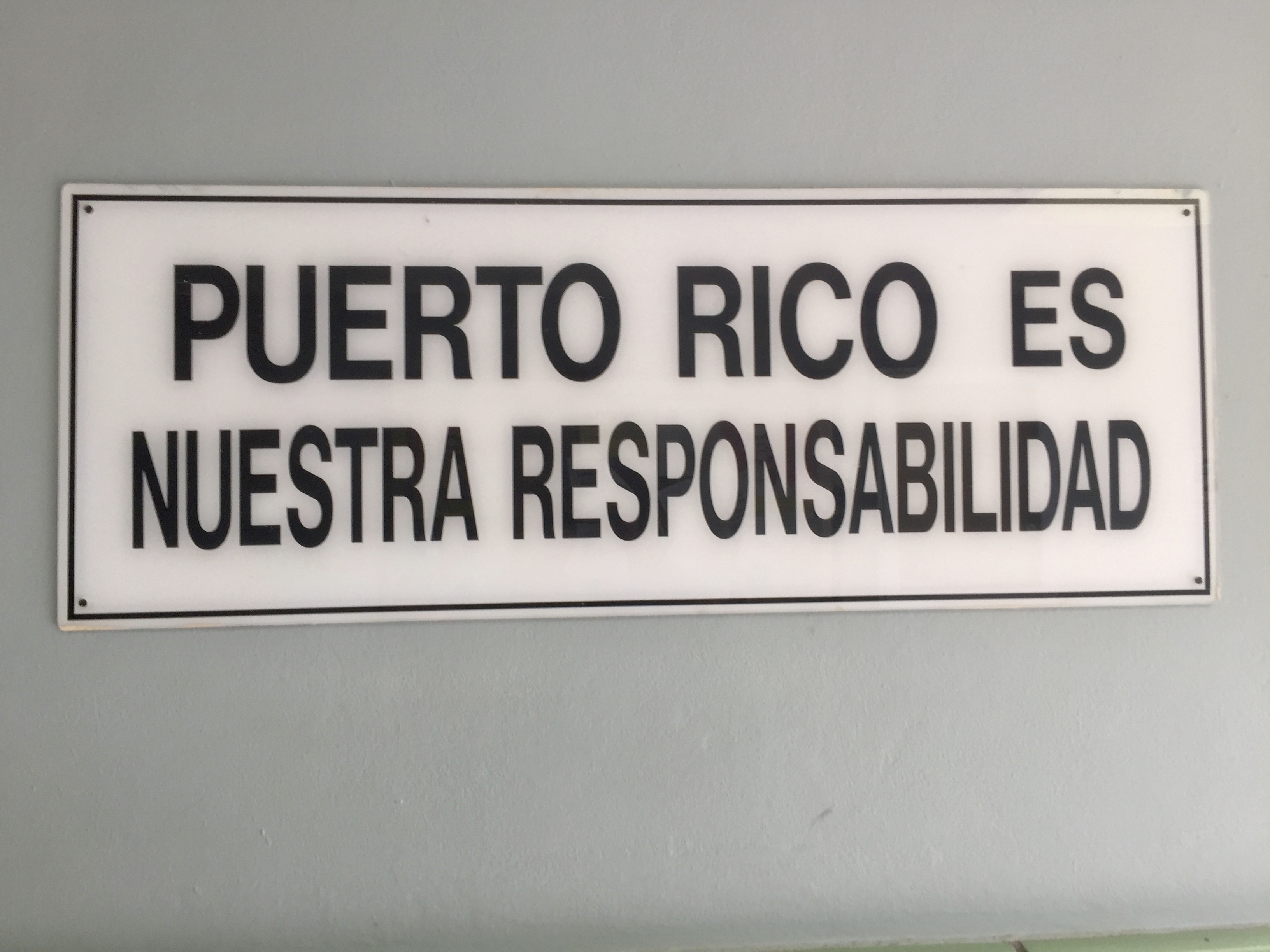 Banner in the Department of Humanities at the University of Puerto Rico in Agüadilla